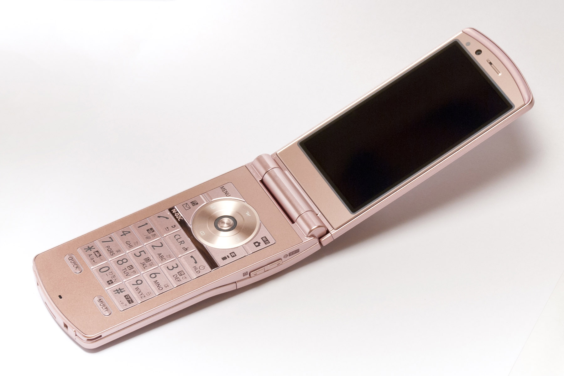 N-02C (Pink) open